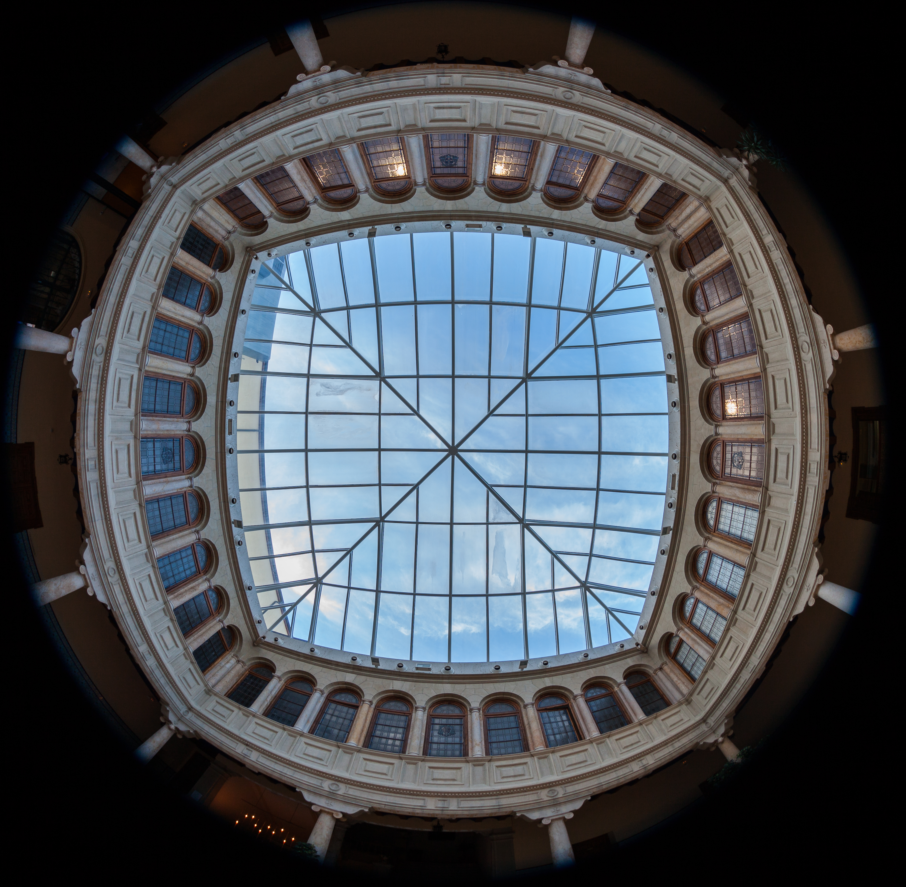 Religious art museum, Teruel, España